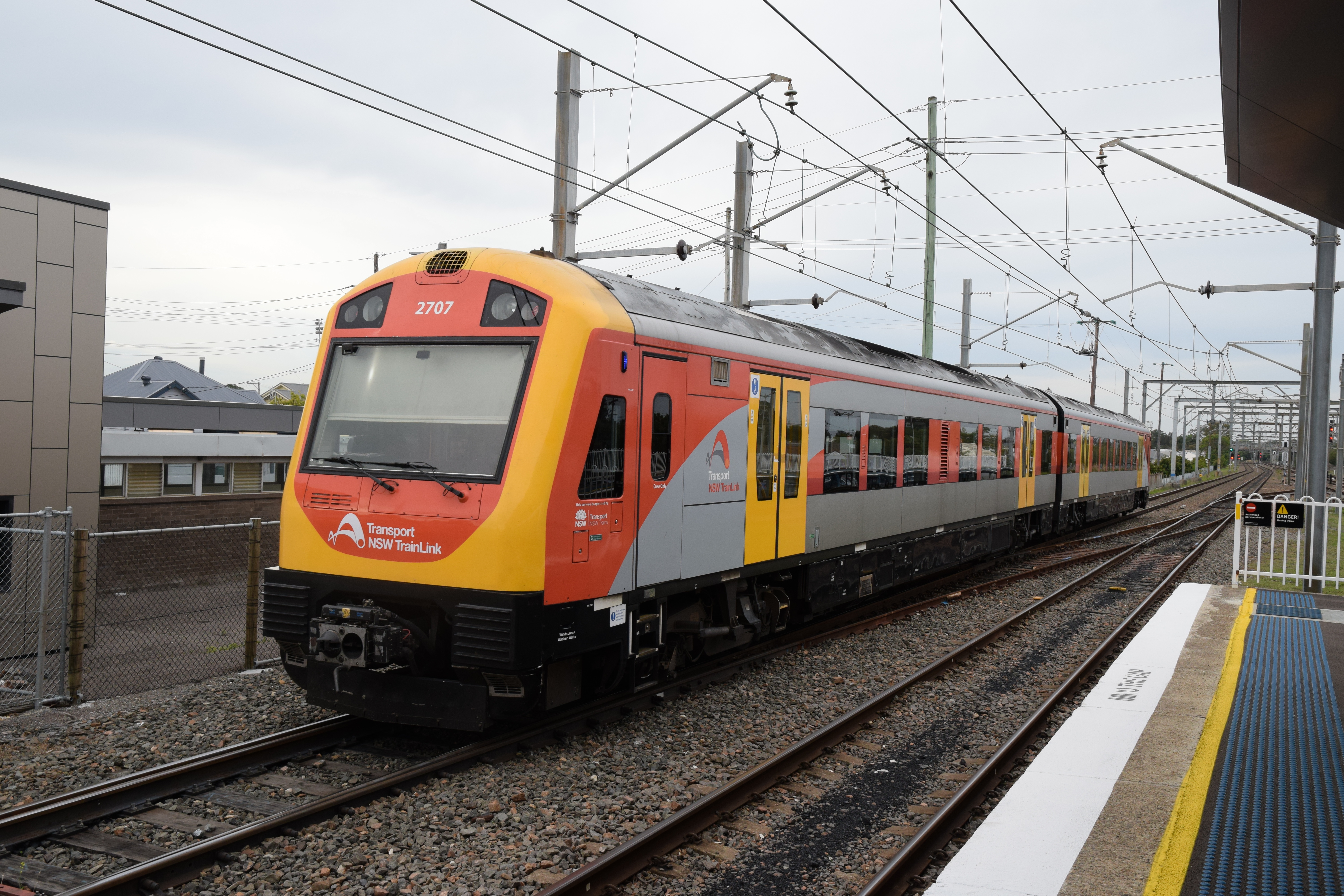 Hunter Railcar Nos.2707/2757 at Broadmeadow Station, NSW, 3 October 2018.